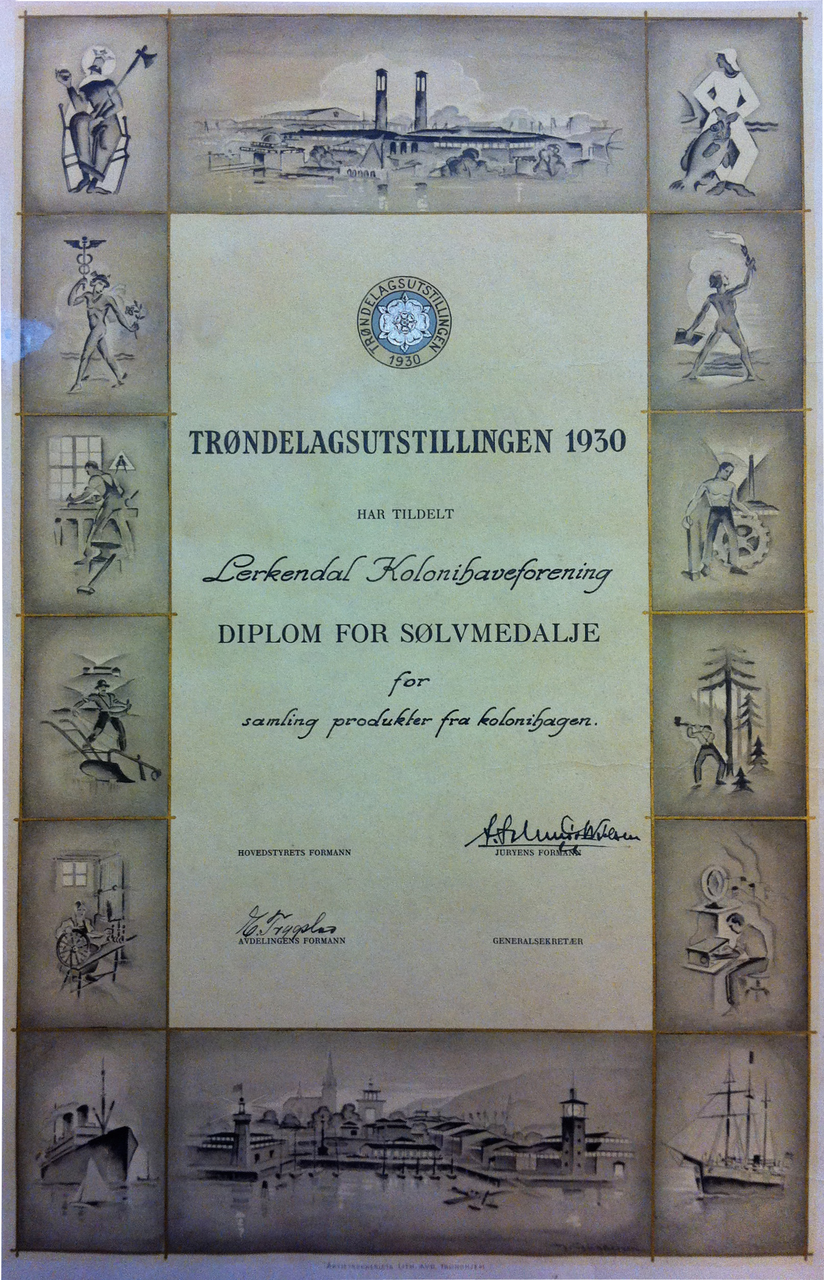 Diploma certifying that "Lerkendal Kolonihaveforening" (Name of an allotment association) was awarded Silver medal for its collection of vegetables at the Trøndelag Exhibition in Trondheim, Norway, 1930